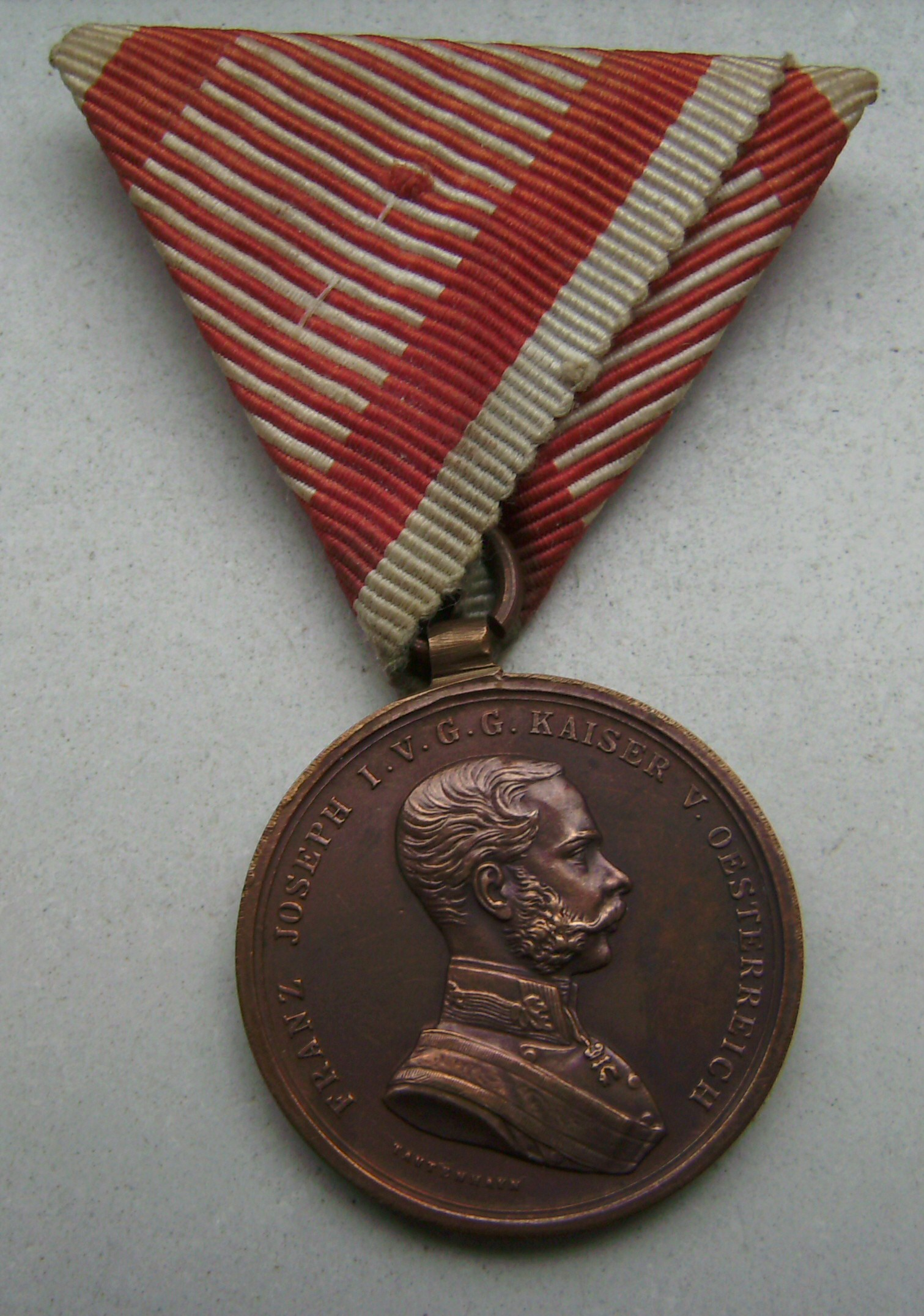 Austro-Hungarian Bronze Medal for Valour (Bronzene Tapferkeitsmedaille )